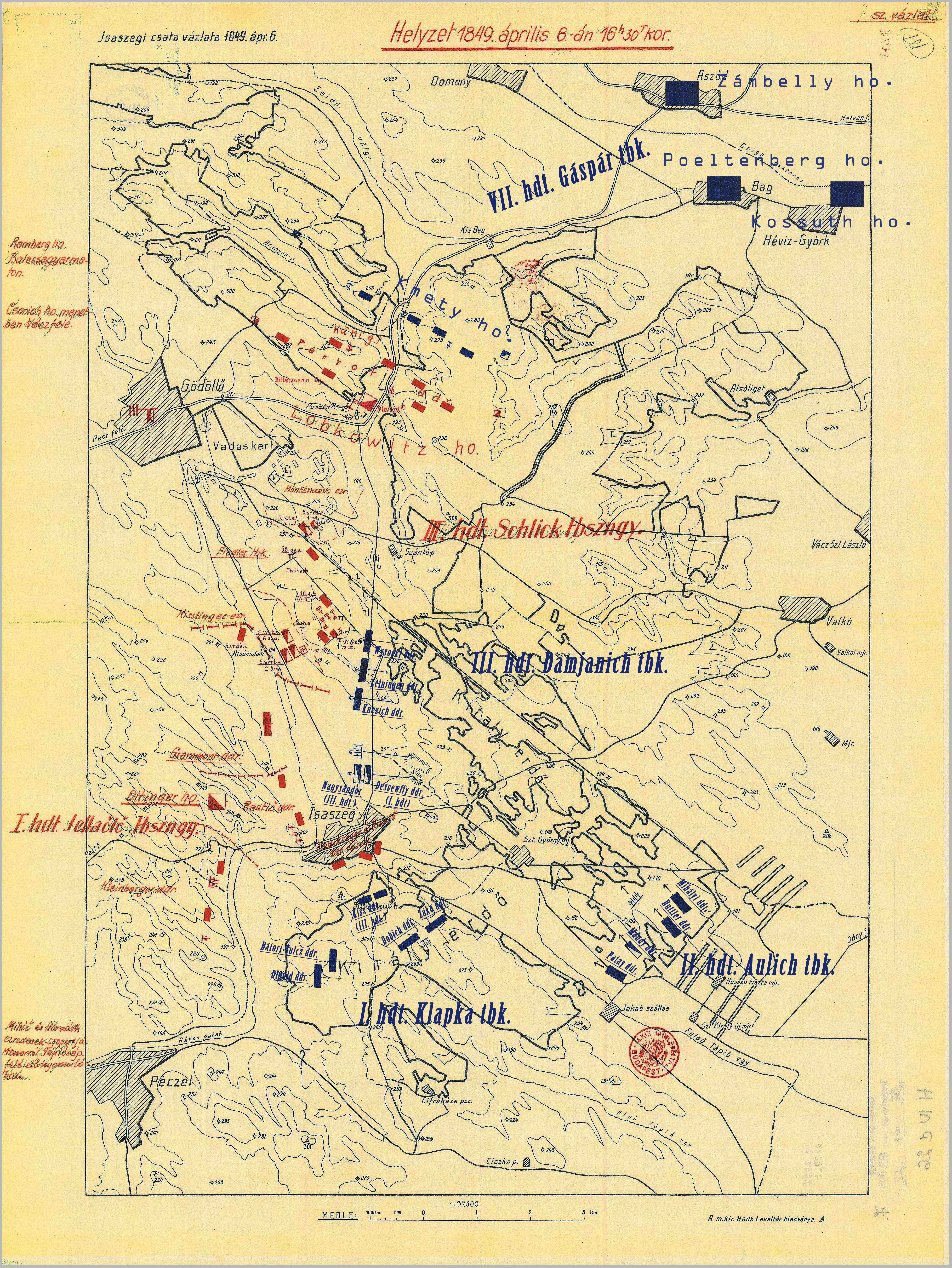 The situation at 16,30 o'clock. Red - the Austrian troops, Blue - the Hungarian troops.